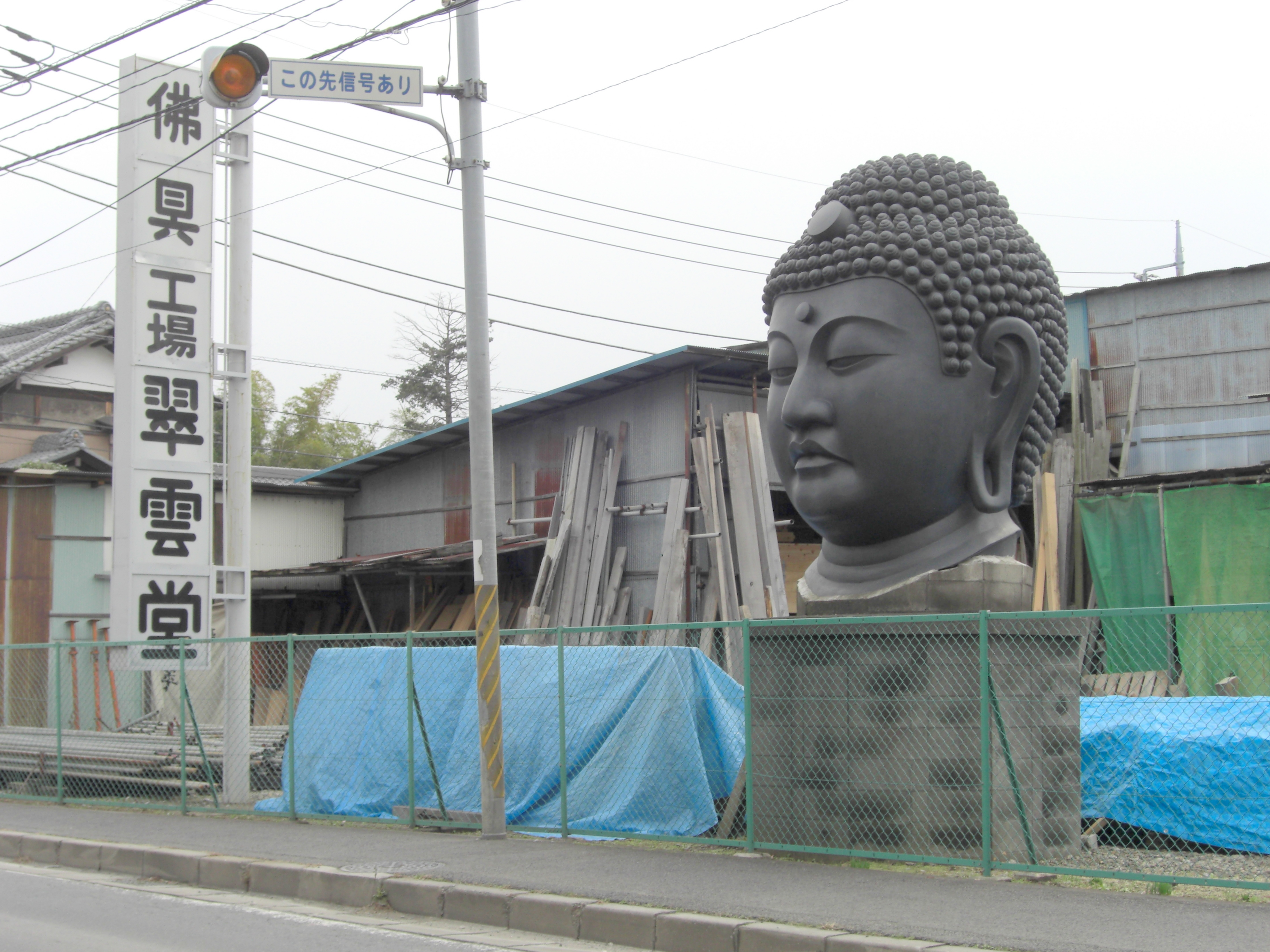 Suiundoh Matsudo factory